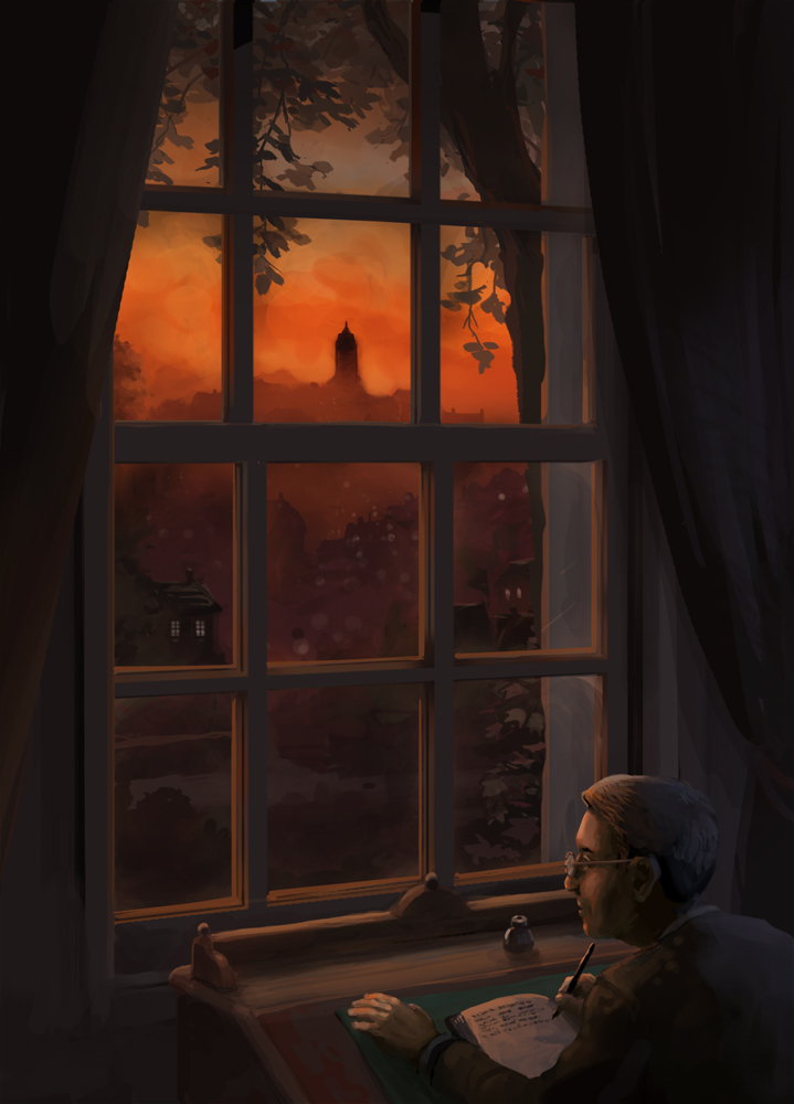 Jarkko Naas's artwork inspired by H. P. Lovecraft's story The Haunter of the Dark.